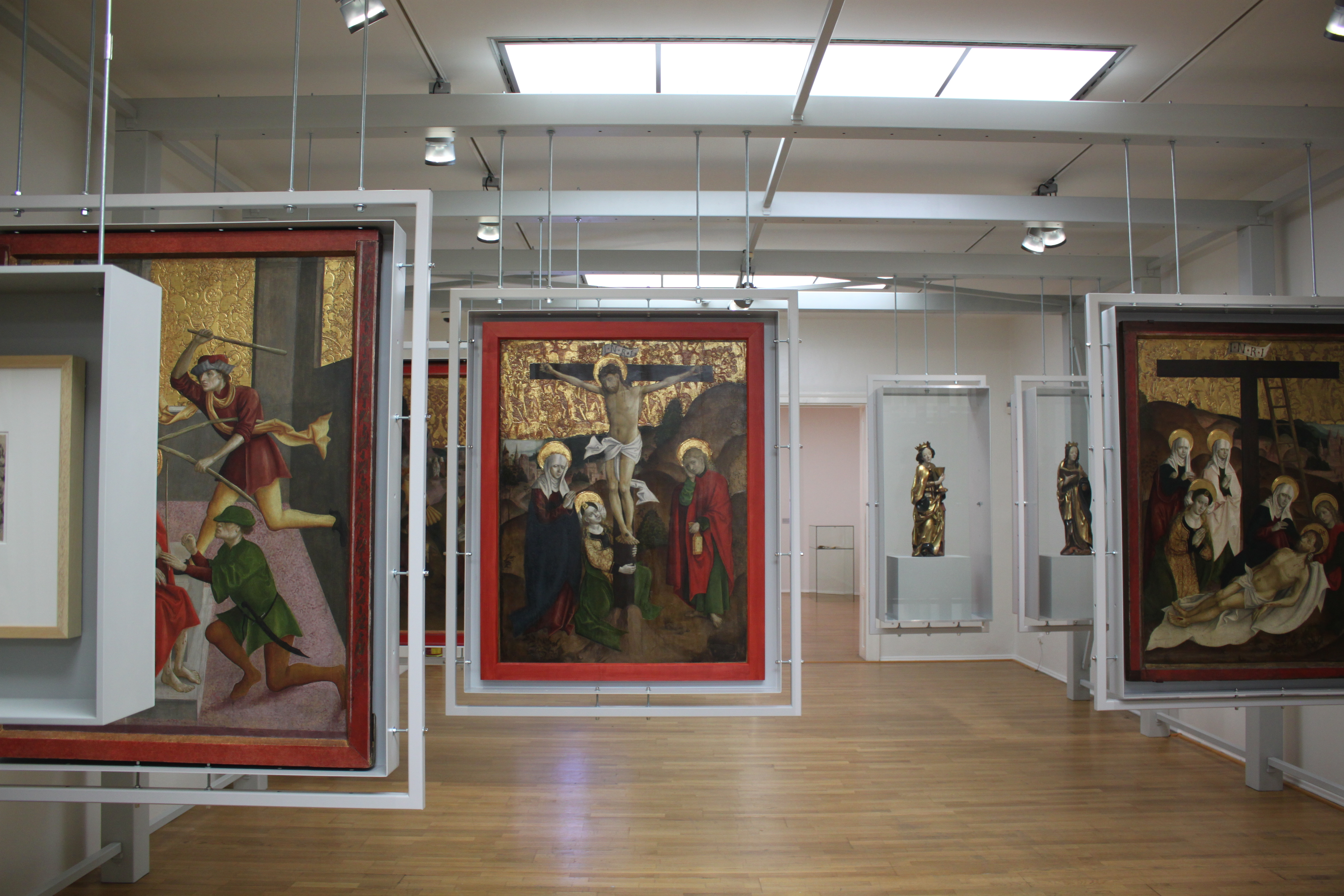 exhibition Master of Okoličné and Gothic Art of Spiš around 1500